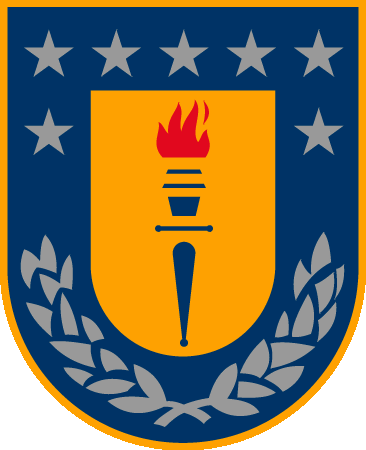 Coat of arms of the University of Concepción, Chile